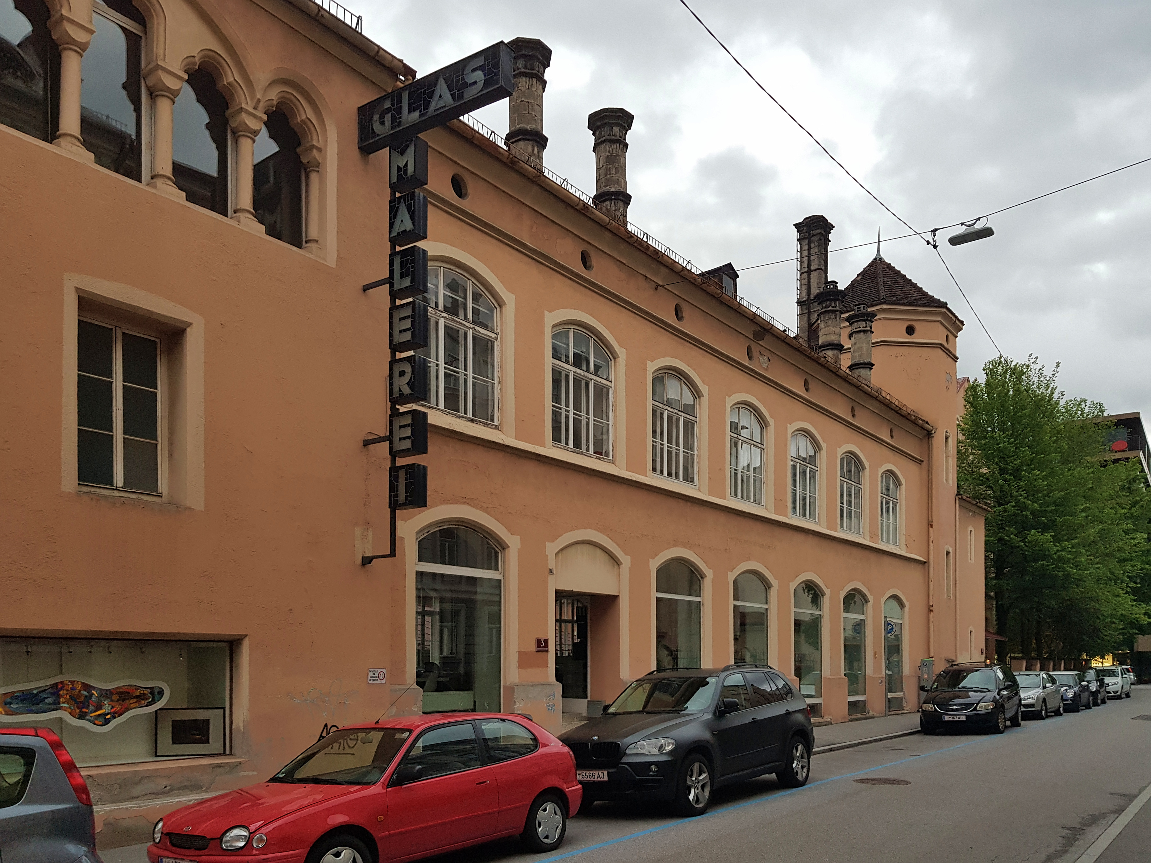 Tiroler Glasmalereianstalt